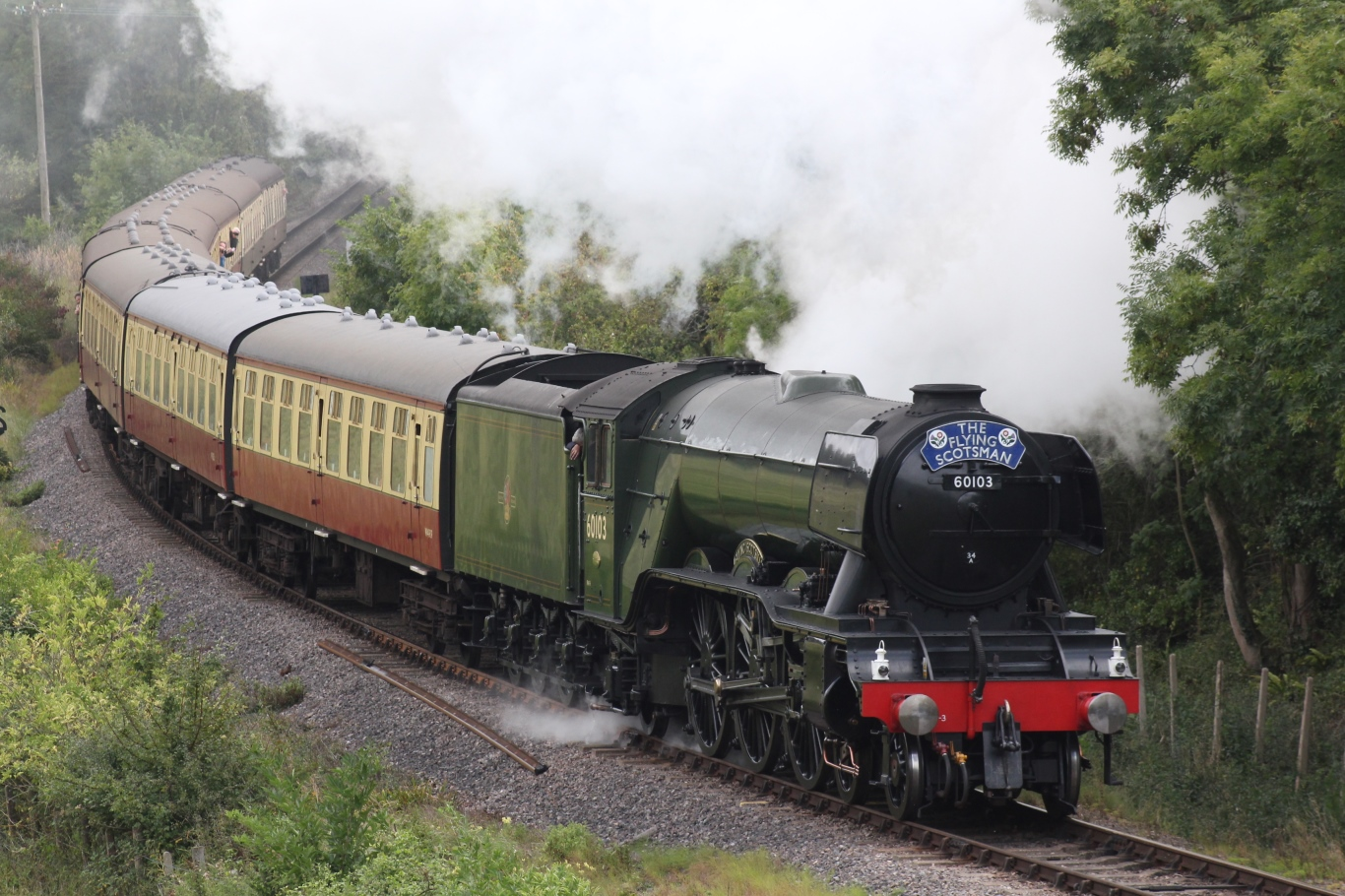 The Flying Scotsman climbs up the hill out of Watchet as it works from Bishops Lydeard to Minehead on a visit to the West Somerset Railway.